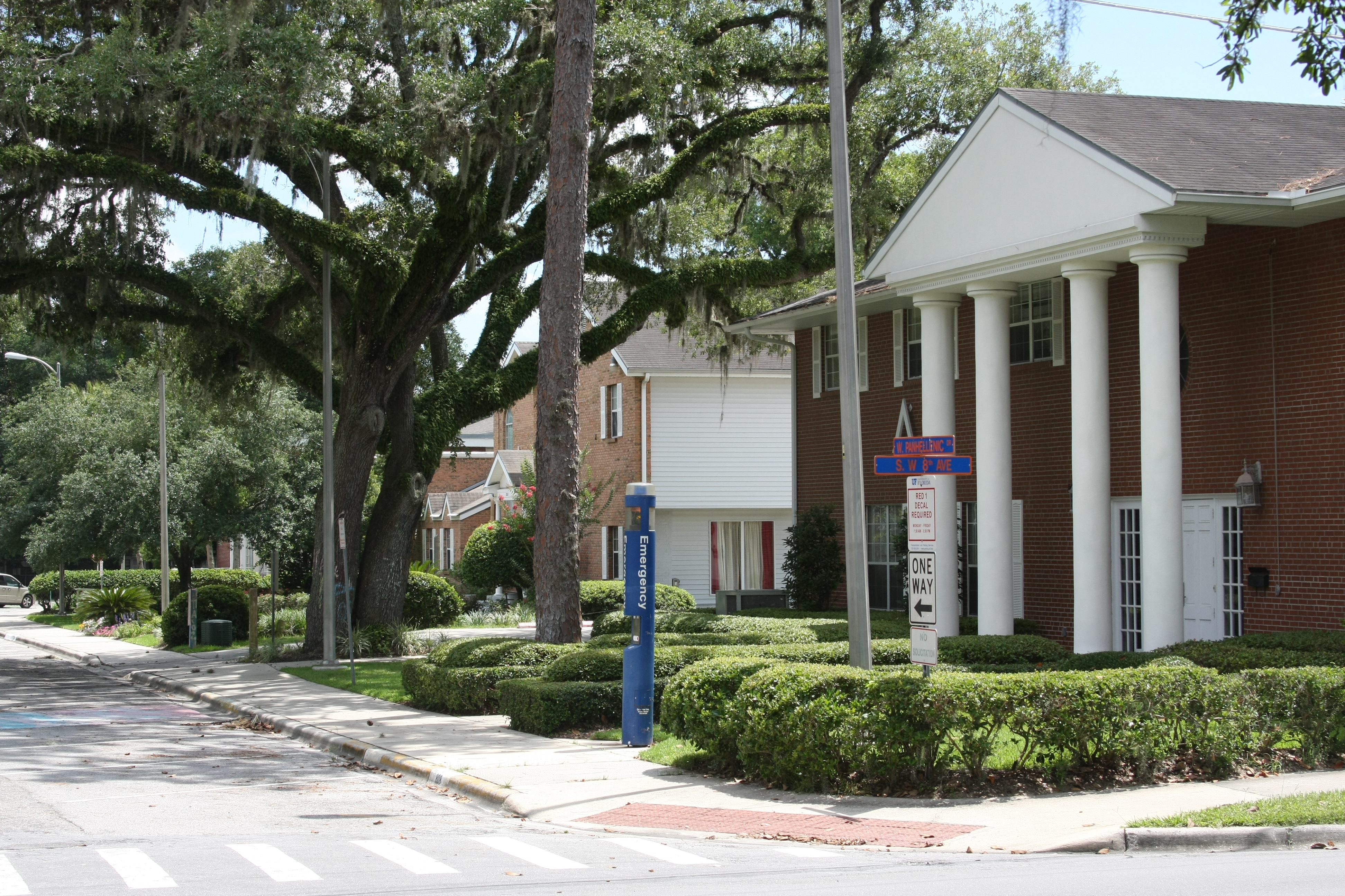 Sororities at the University of Florida2